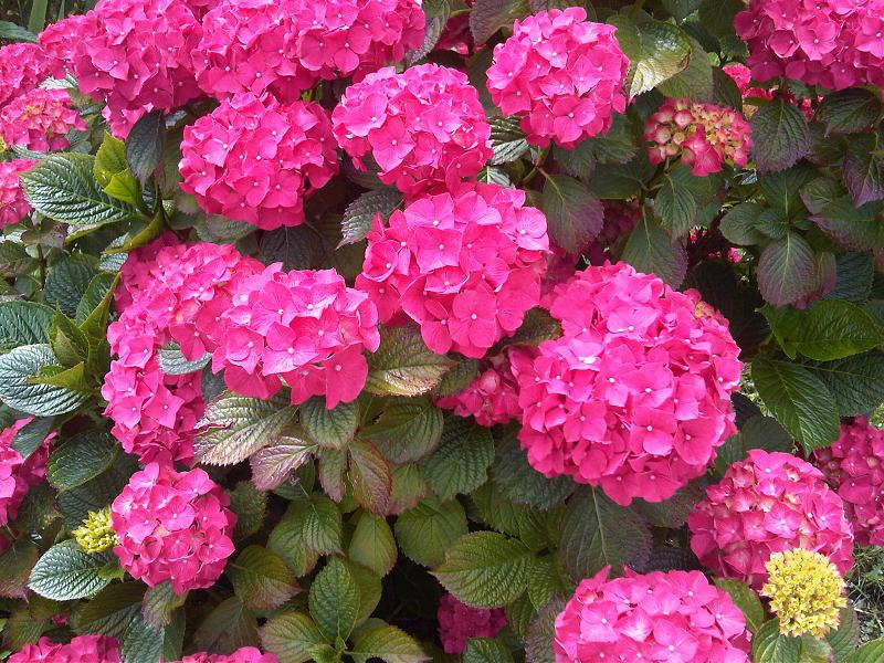 Hydrangea macrophylla 'Bouquet Rose' in London, England.